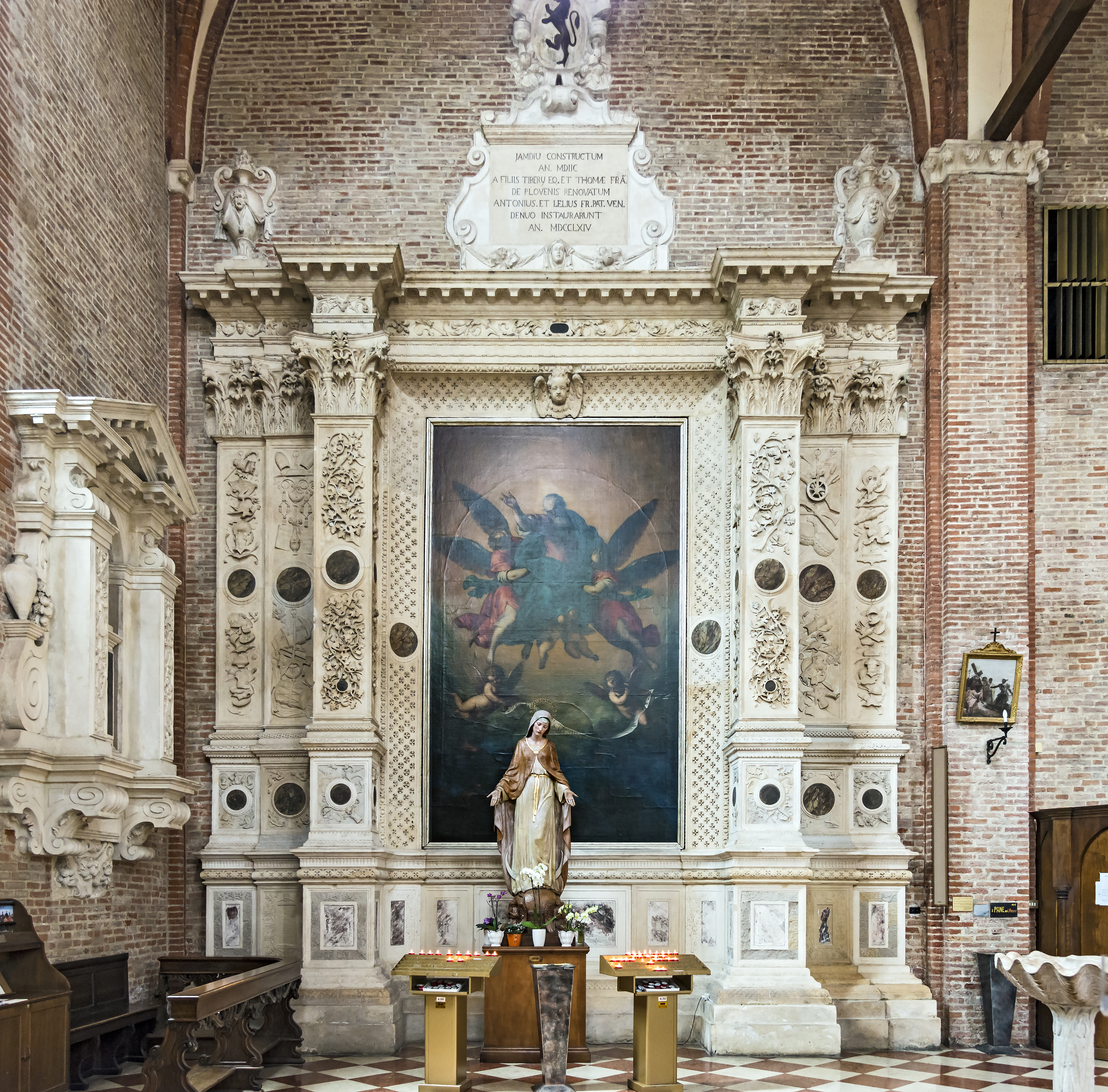 Church San Lorenzo in Vicenza - Nave left - Altar Gualdo - first span, the altar Piovene. The eternal Father in glory oil on canvas is by the painter Matteo Ingoli.